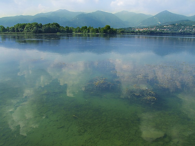 Lago di Pusiano seen from Moiano